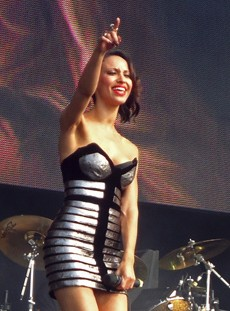 Chester Rocks Saturday